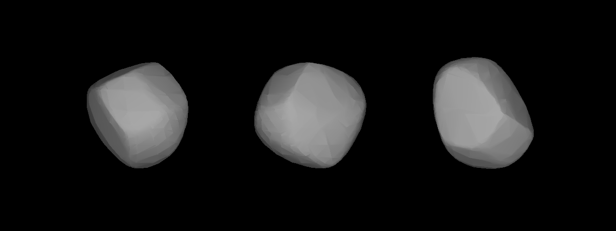 A three-dimensional model of 167 Urda that was computed using light curve inversion techniques.